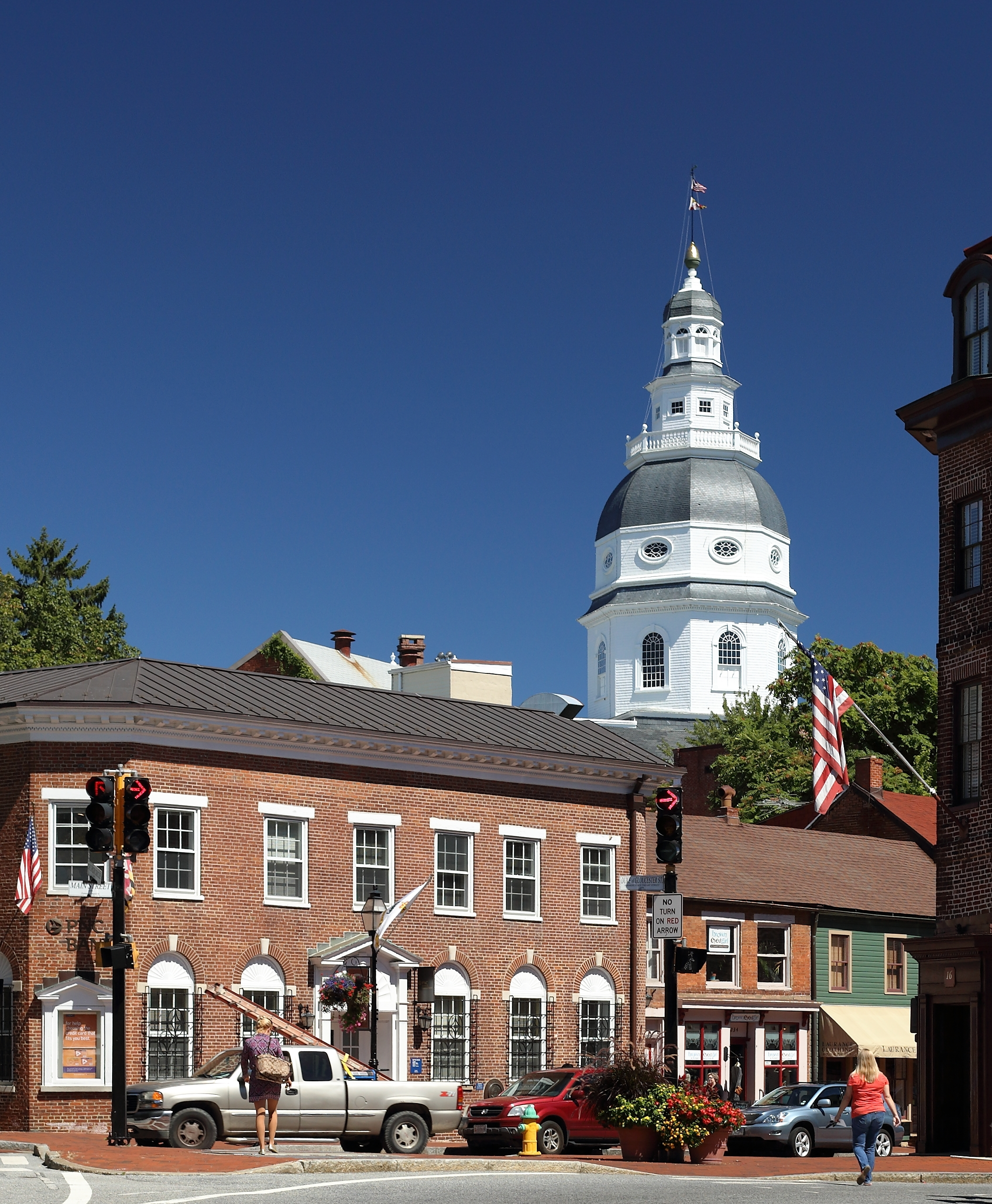 Maryland State House as seen from Church Circle